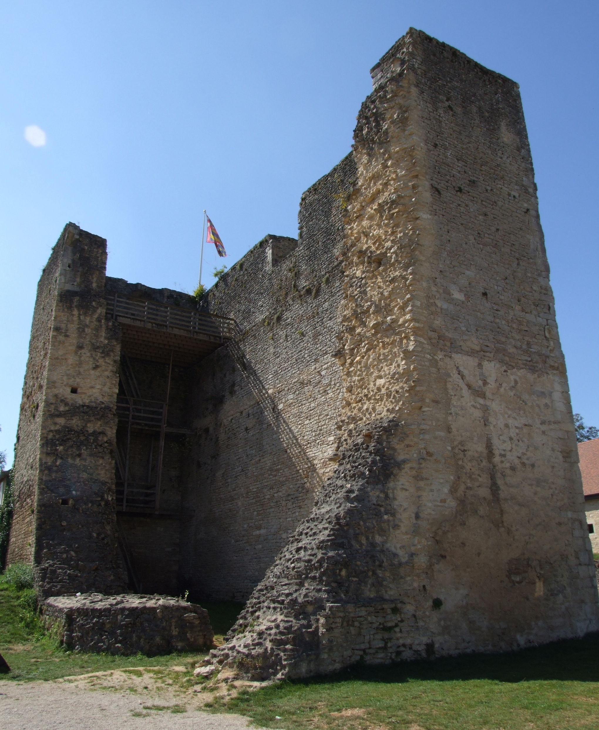 Salives, Burgundy, FRANCE